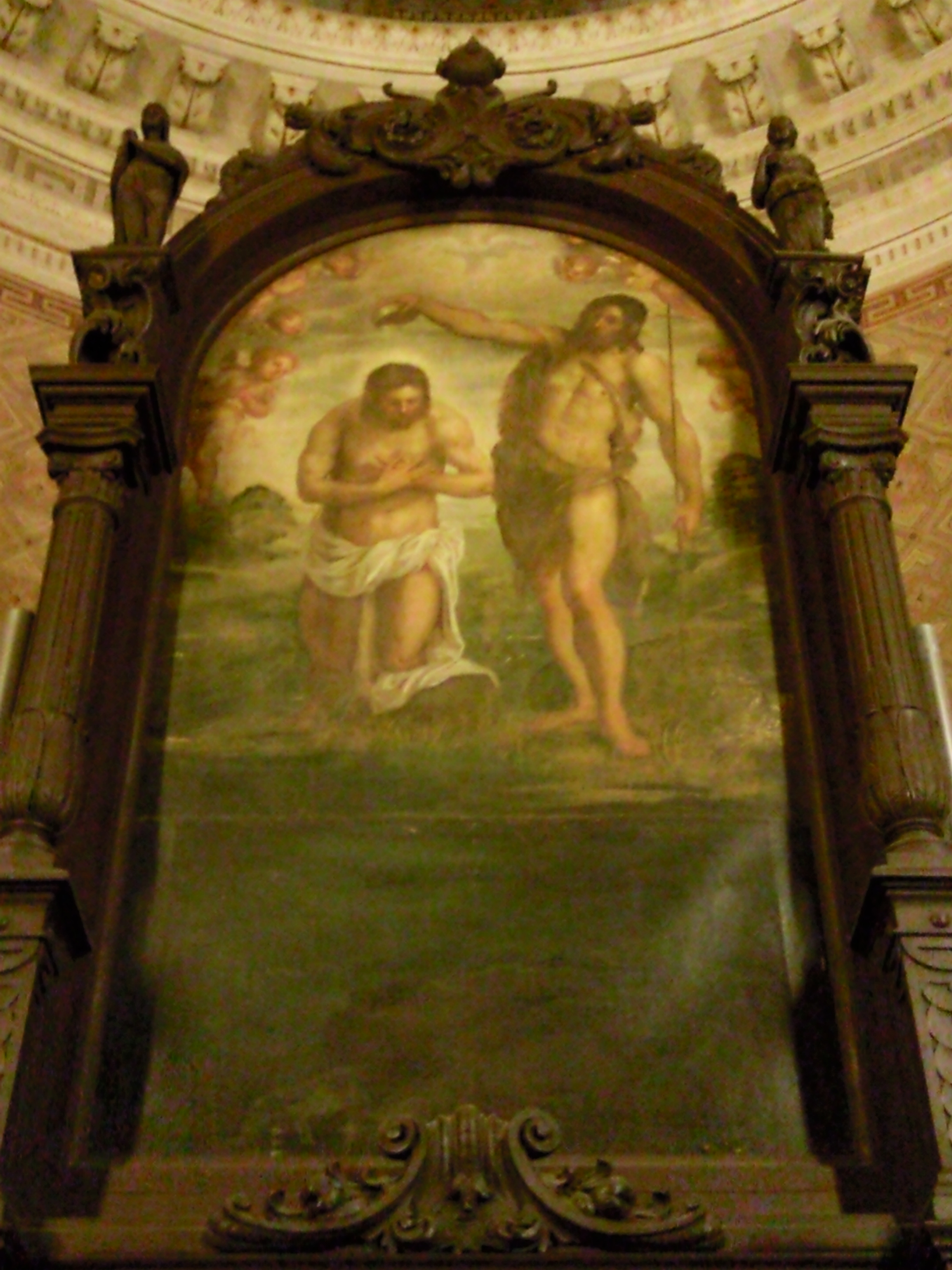 Pala del "Battesimo del Signore" attribuita al Tintoretto a Cappella di Scorzè